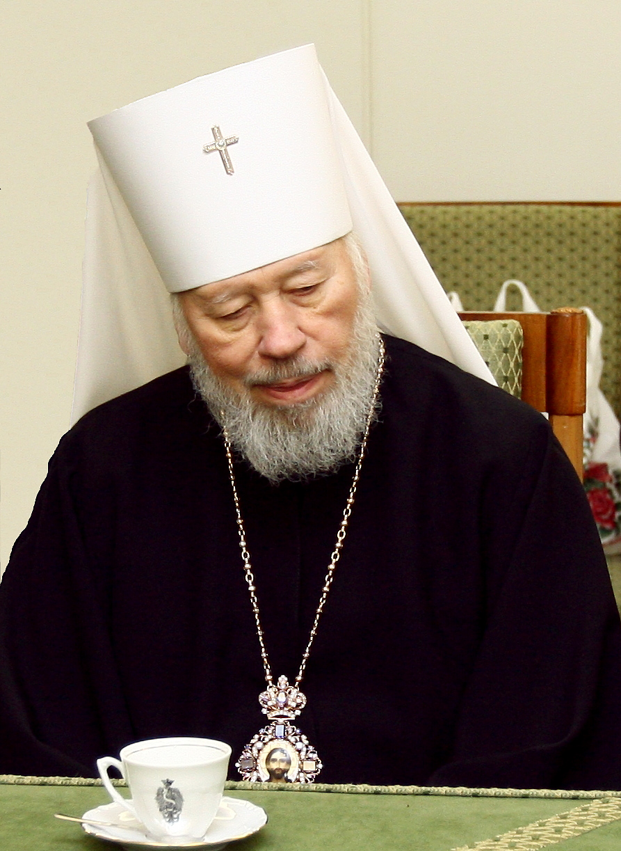 Metropolitan of Kiev and all Ukraine Vladimir in the Polish Senate